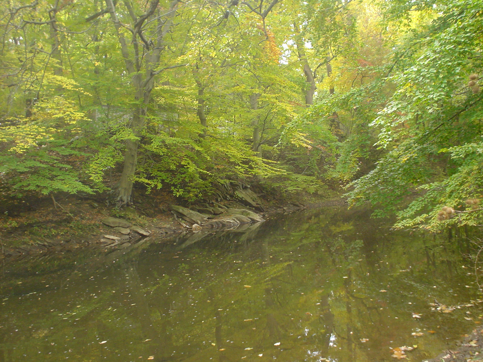 Chester Creek, just upstream (NW) of Upland, PA. This is my own work, which I donate to the Public Domain.